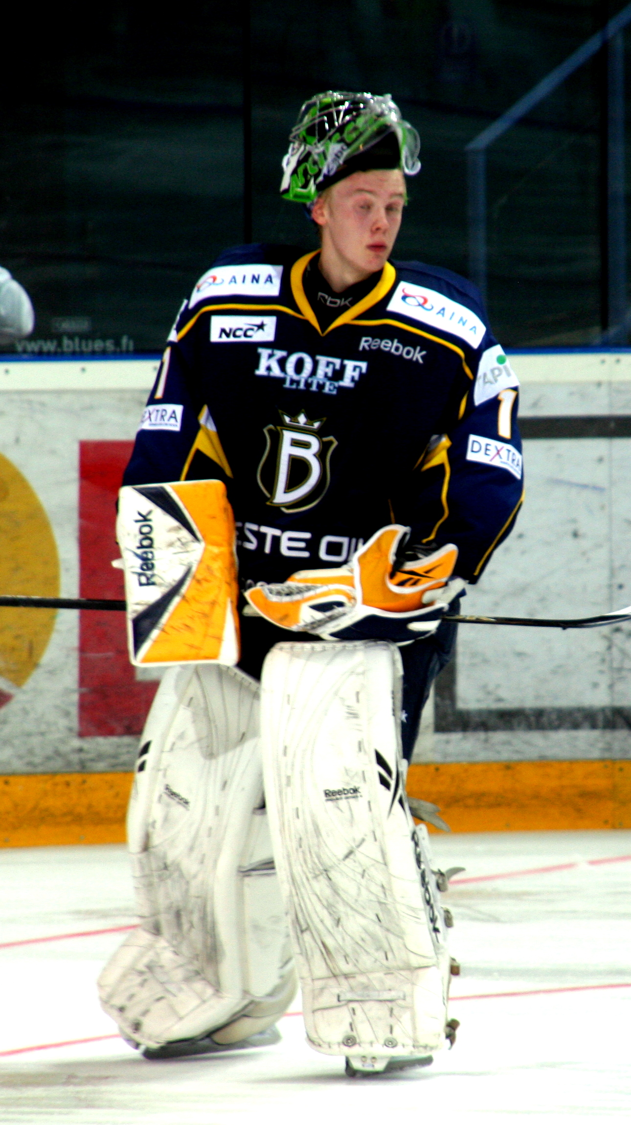 Ice Hockey team Espoo Blues' Goaltender #1 Joonatan Iilahti